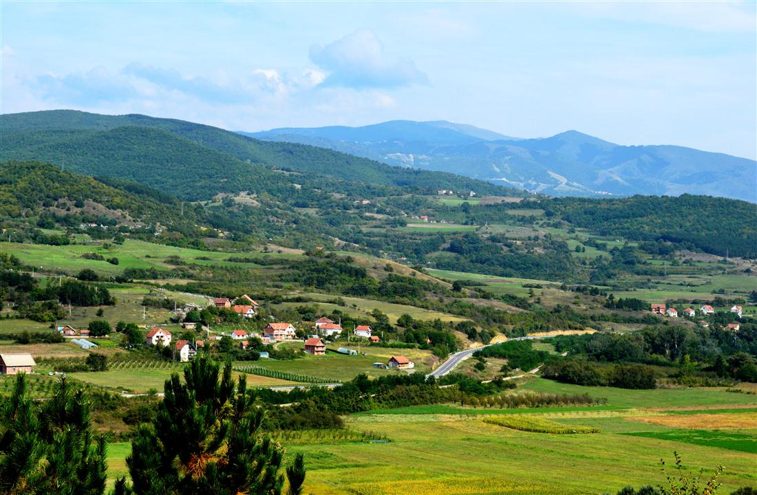 Raska Municipality - Gnjilica